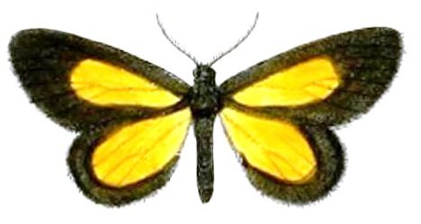 "New Lepidoptera Heterocera"